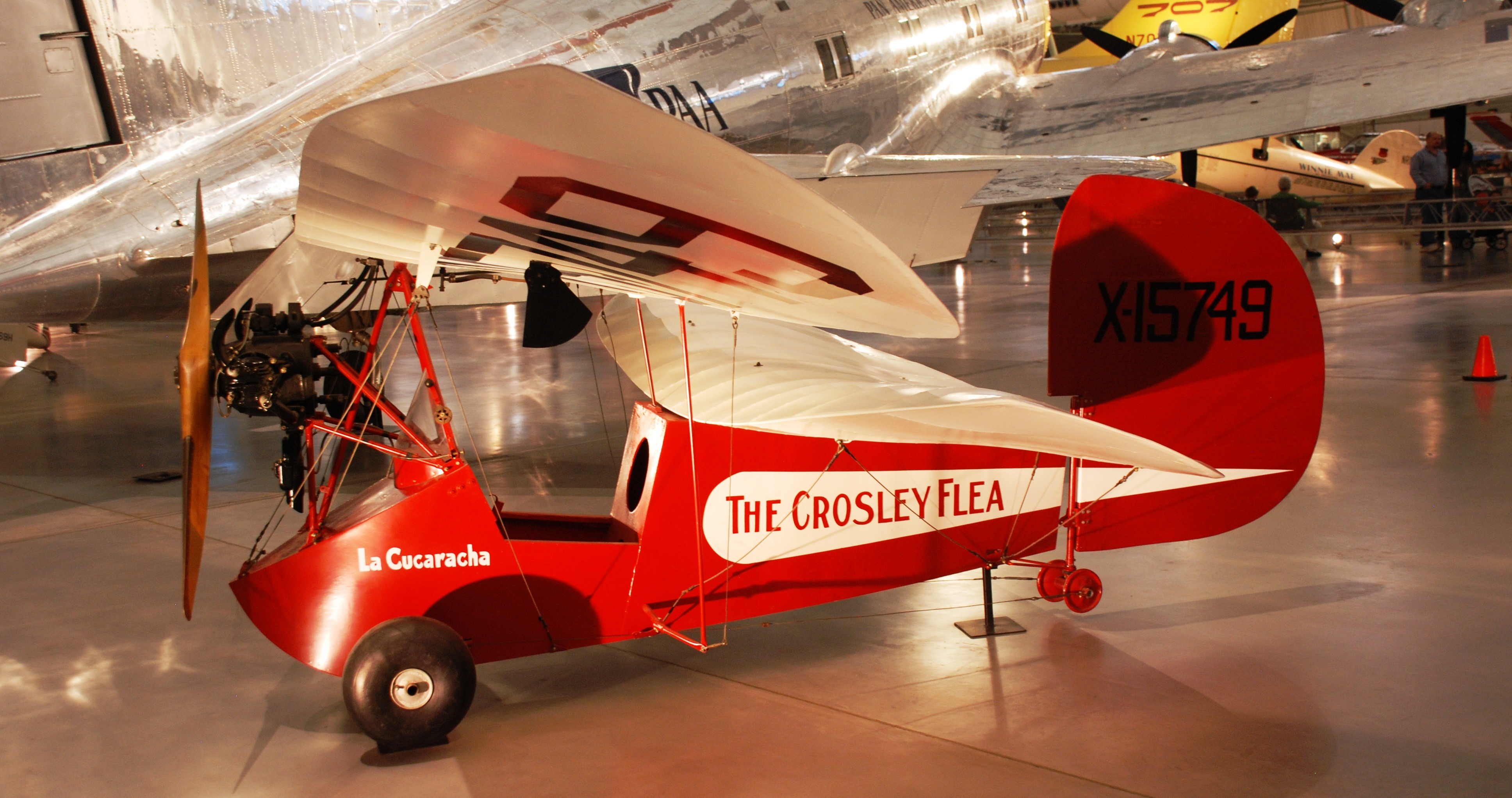 Mignet HM.14 Pou Du Ciel - "La_Cucaracha" in Steven F. Udvar-Hazy Center. Museum Description: Frenchman Henri Mignet designed the HM.14 Pou du Ciel (Flying Flea) in 1933. He envisioned a simple aircraft that amateurs could build and even teach themselves to fly. In an attempt to render the aircraft stall-proof and safe for amateur pilots to fly, Mignet staggered the two main wings. The HM.14 enjoyed a period of intense popularity in France and England but a series of accidents in 1935-36 permanently blackened the airplane's reputation. Thise Mignet-Crosley Pou du Ciel is the first HM.14 made and flown in the United States. Edward Nirmaier and two other men built the airplane in November 1935 for his boss, Powel Crosley, Junior. Crosley was president of the Crosley Radio Corporation. He believed that the Flea might become a popular aircraft in the United States. After several flights, a crash at the Miami Air Races in December 1935 grounded the Crosley HM.14 for good. In 1960 Patrick H. "Pat" Packard donated this Pou du Ciel to the Smithsonian. In 1987 Packard and Patti Koppa finished restoring the aircraft. The original ABC Scorpion engine was missing, so these two artisans fabricated a wooden replica. Gift of Patrick H. Packard. Inventory Number: A19610020000 Details Date: 1935 Country of Origin: France Dimensions: Wingspan: 5.2 m (17 ft) Length: 3.6 m (11 ft 10 in) Height: 1.7 m (5 ft 6 in) Weight: 159 kg (350 lb) Engine: ABC Scorpion air-cooled, two-cylinder, 39 horsepower. Crew: 1 Designer: Henri Mignet Builder: Edward Nirmaier Physical Description: Open-cockpit, staggered wing biplane w/ tractor engine and fixed, tailwheel-type landing gear.